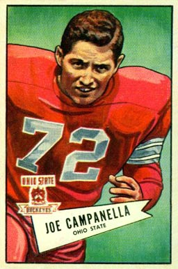 American football player Joe Campanella on a 1952 Bowman Large card.